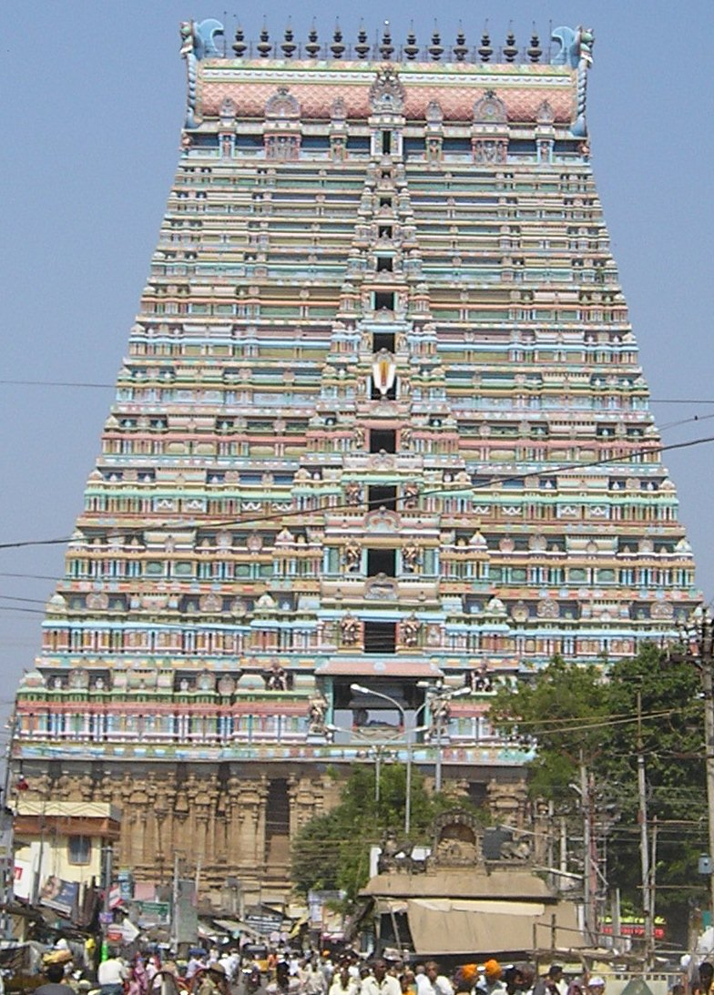 Srirangam gopuram